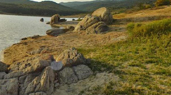 Dondukovo near Zlatosel and Svejen